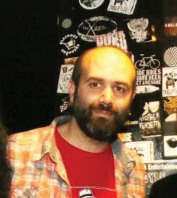 Josh Kantor (cropped from an image with his band The Split Squad)